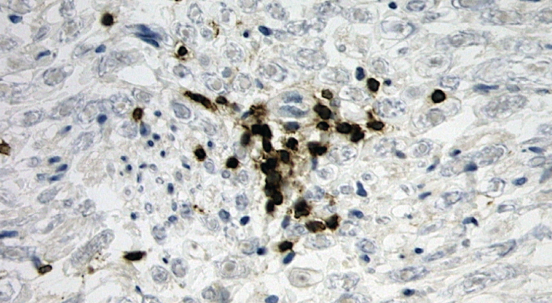 T-lymphocytes within myocardium of Richrd M. Westgate (†12.12.2012).